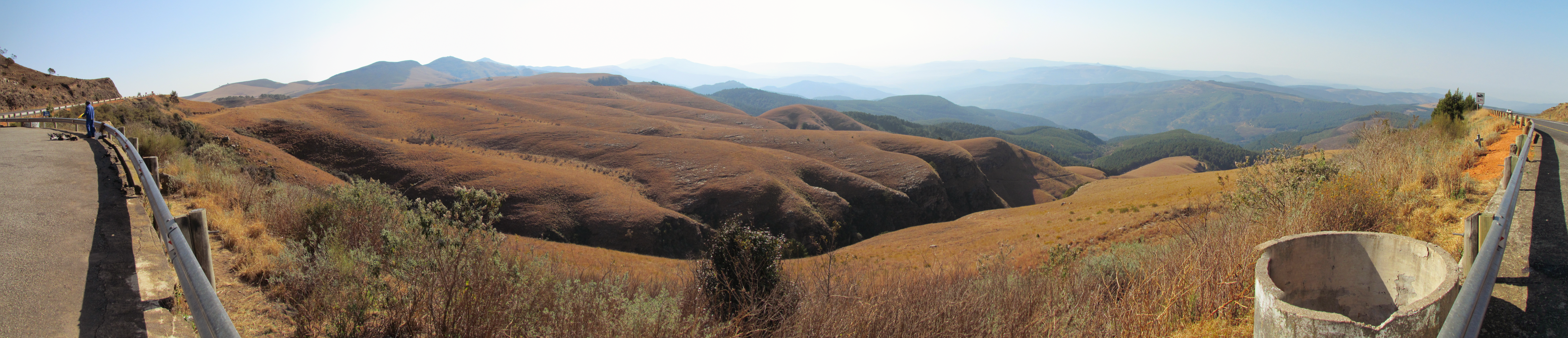 The Long Tom Pass, near Lydenburg, South Africa